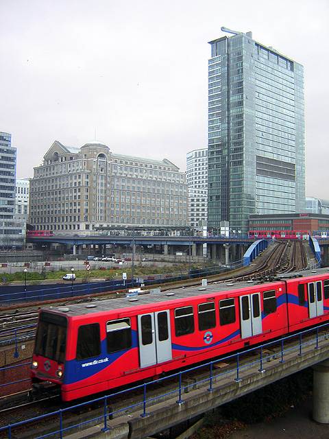 West India Quays DLR station seen from Poplar DLR Station, Poplar, Tower Hamlets, London. 4 February 2006. Photographer: Fin Fahey.